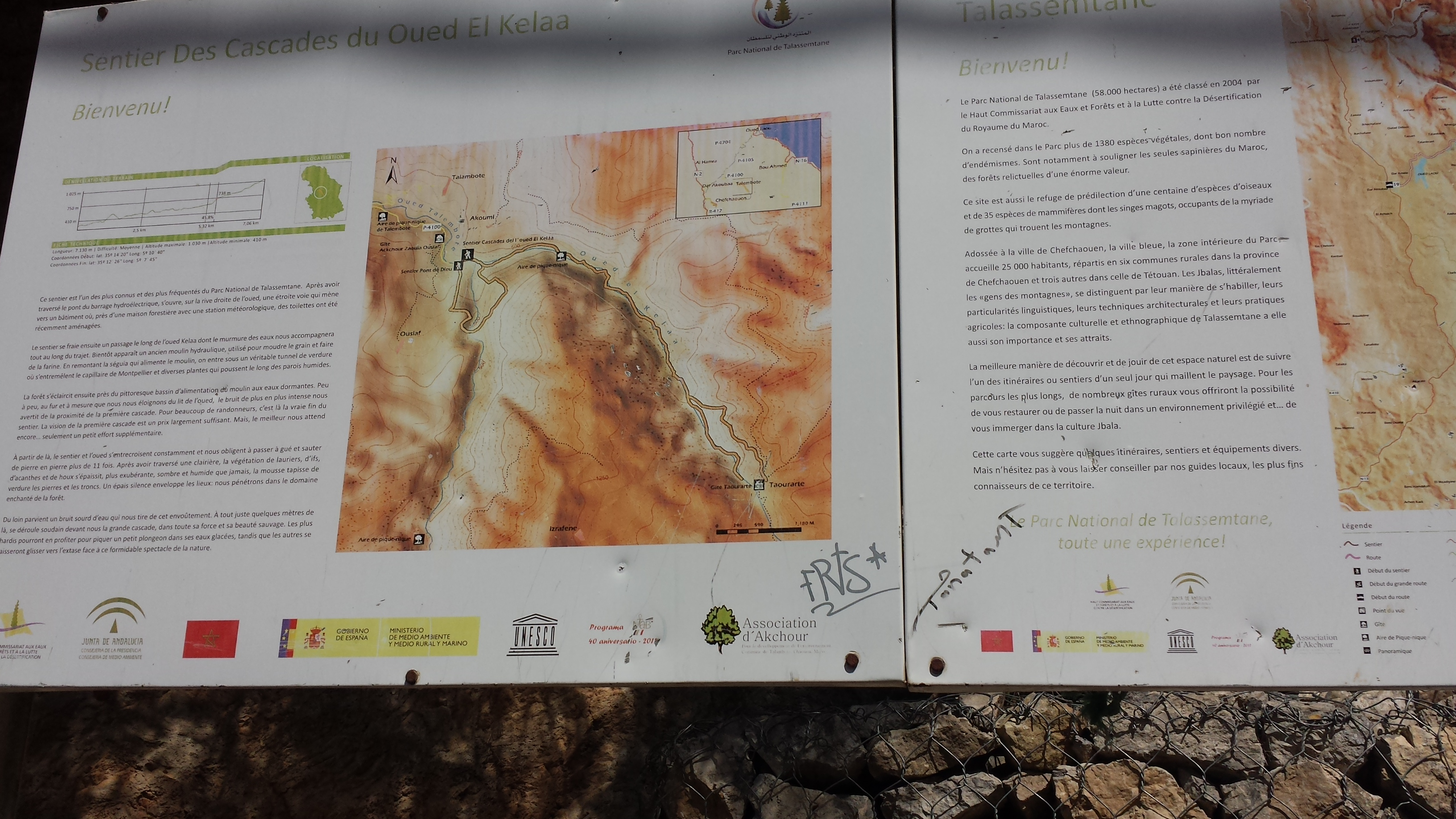 Talassemtane National Park entrance sign. Found at entrance of park.